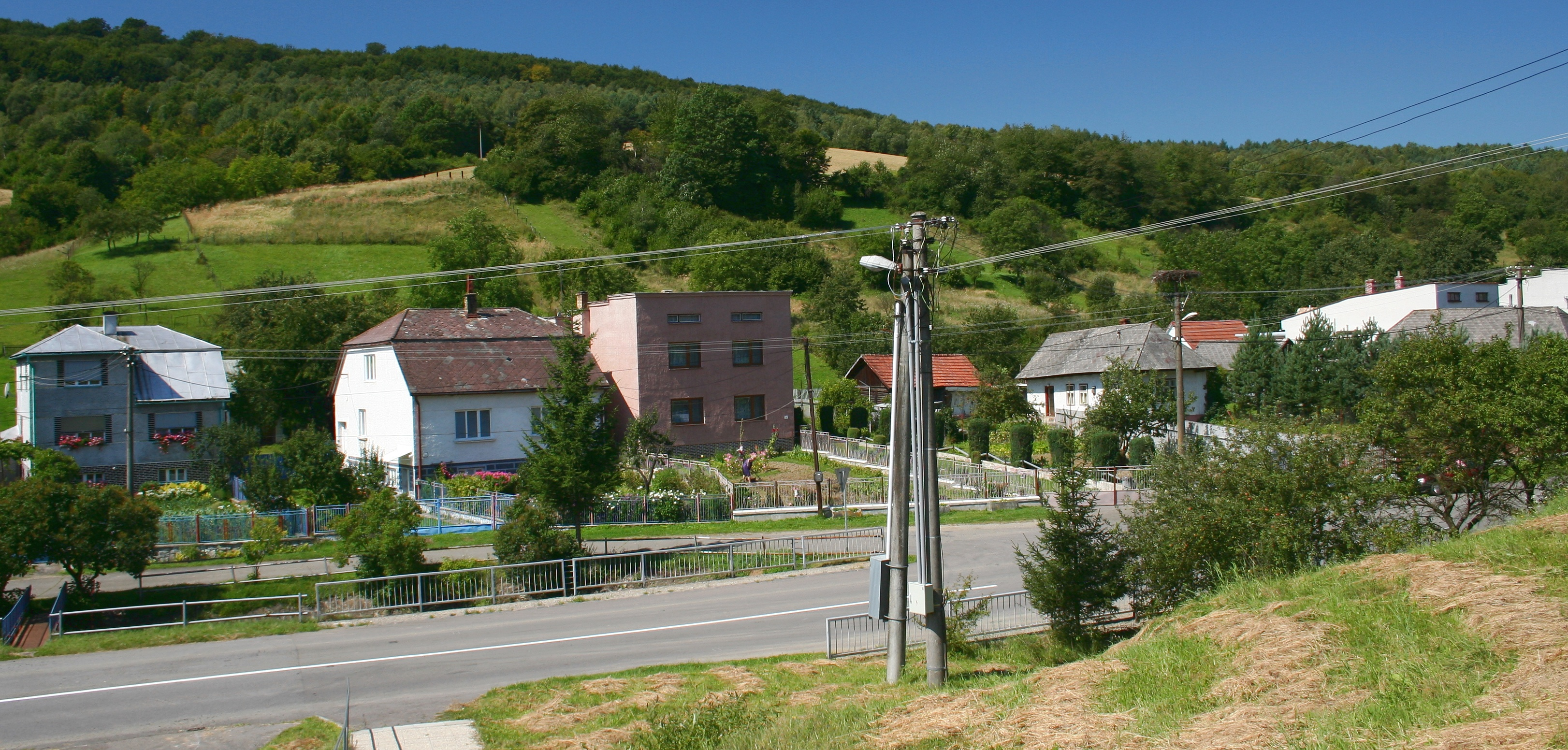 Rokytovce, village in Slovakia